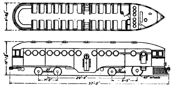 General arrangement drawing of a McKeen rail motor car.